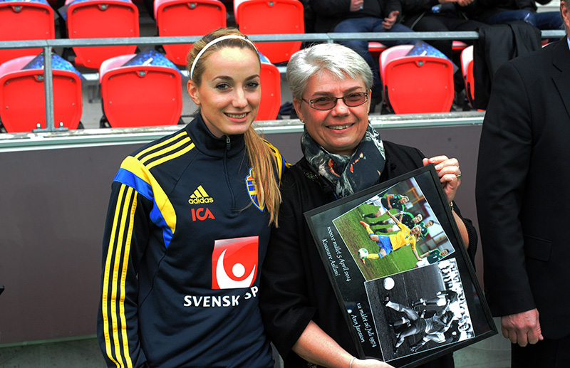 Current Swedish footballer Kosovare Asllani (L) with pioneering stalwart Ann Jansson (R)